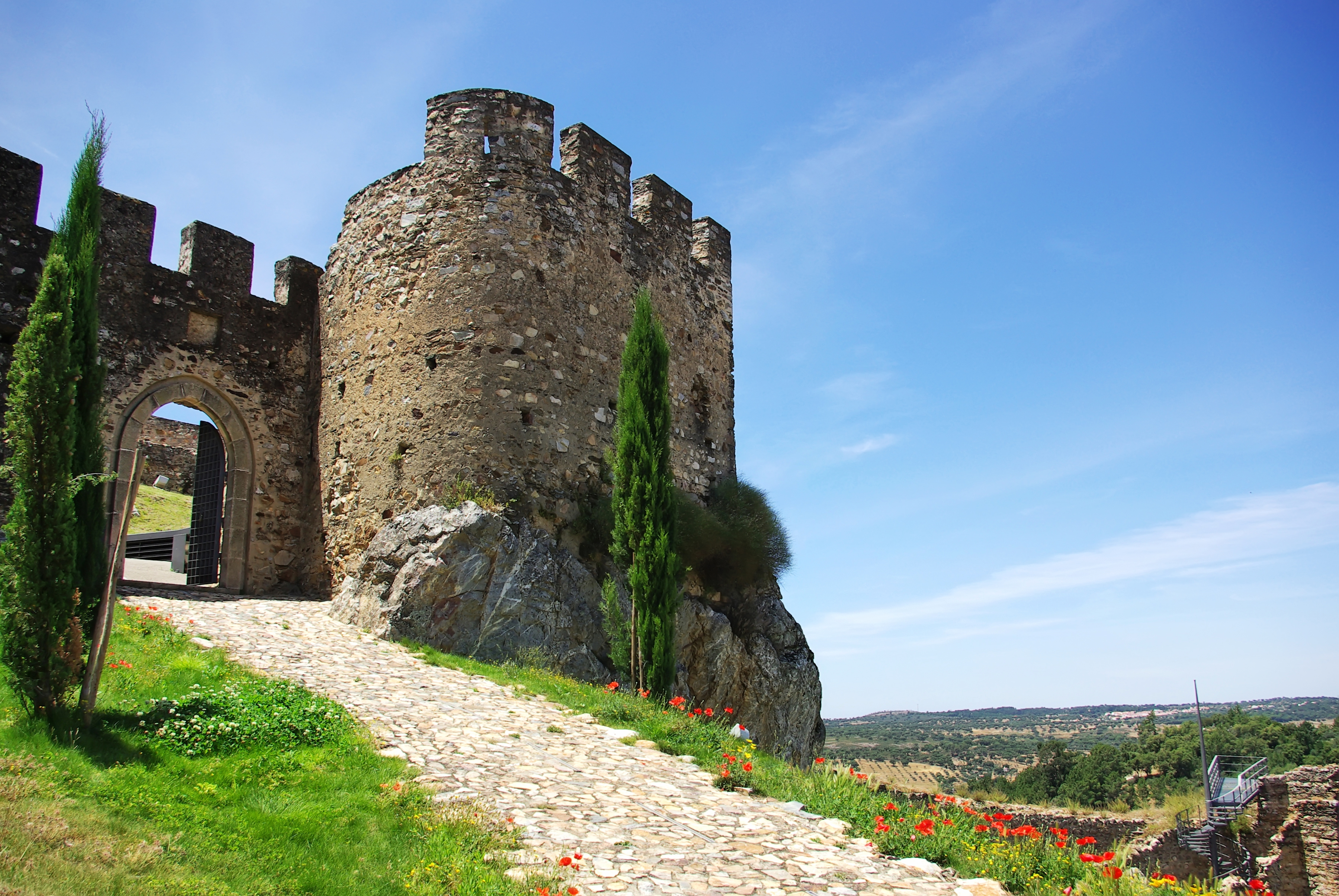 This file was uploaded for Wiki Loves Monuments in Portugal with the unique identifier 71109.